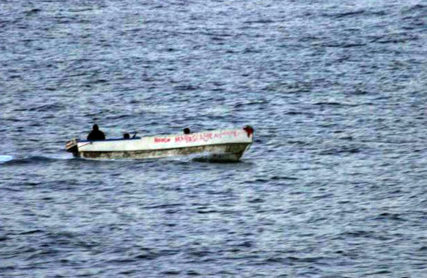 An armed suspected pirate looks over the edge of a skiff, in international waters off the coast of Somalia. USS Cape St. George (CG 71) and USS Gonzalez (DDG 66) prepared to board the suspicious vessel. The vessel’s crew members opened fire on the U.S. Navy ships and the ship's crew members returned fire. One suspect was killed and 12 were taken into custody.